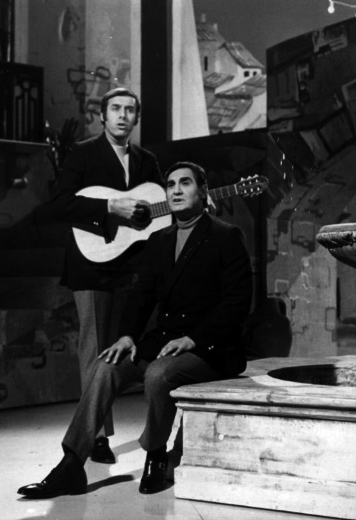 Publicity photo of Tony Sandler and Ralph Young performing on the television program Kraft Music Hall.